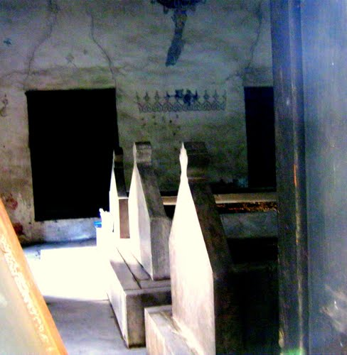 Interior view of the mausoleum of Şirin Hatun